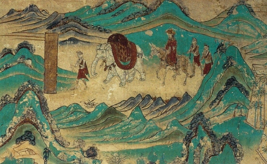 Xuanzang returned from India. Dunhuang mural, Cave 103. High Tang period (712-765).